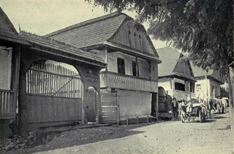 Székler village, early XXth century